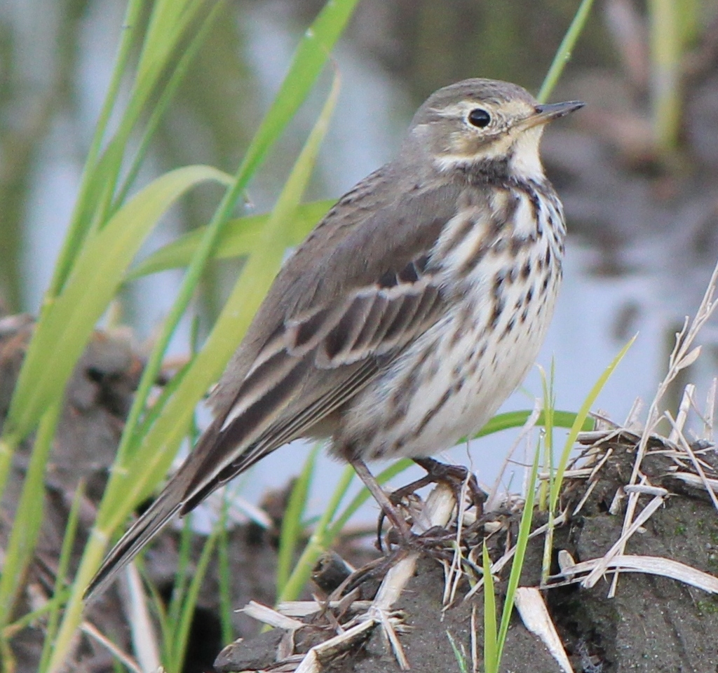 Anthus rubescens japonicus (Buff-bellied Pipit), in Japan